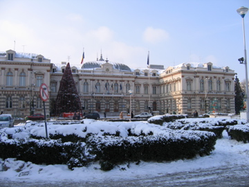 County Council of Bacău, Romania